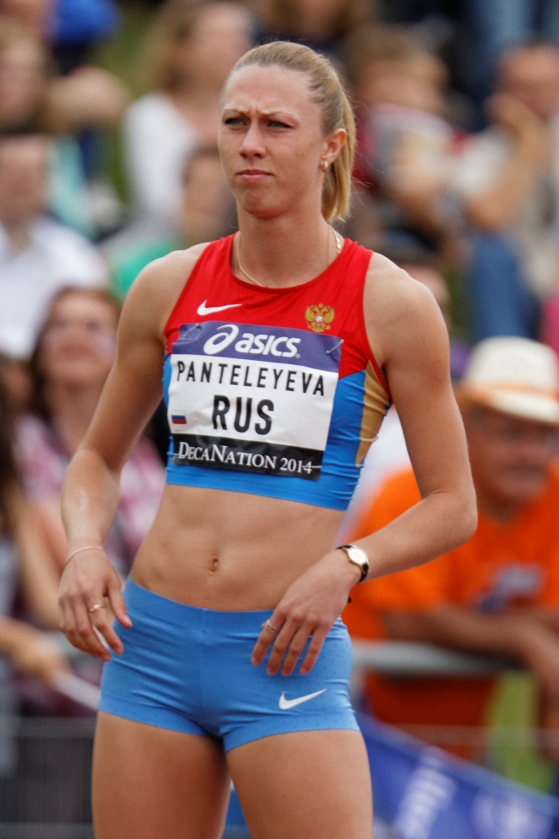 DécaNation 2014. 100m.